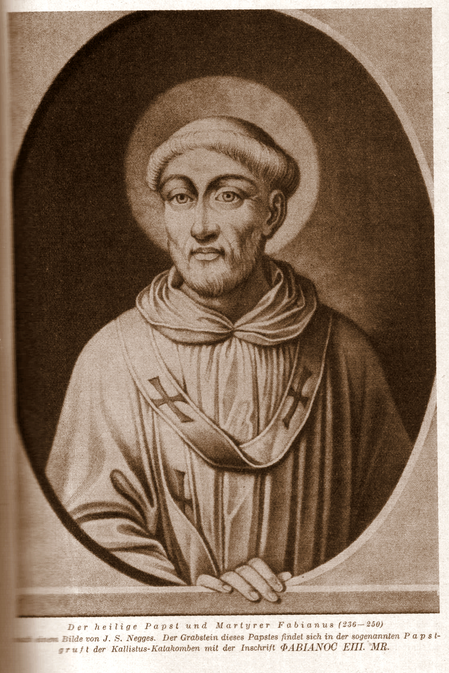 Picture with inscription from Pope Fabian in book of Seppelt-Löffler